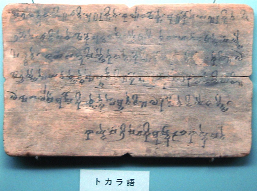 Wooden plate with an inscription in Tocharian B describing a piece of land, either part of a sale contract (Pinault) or a record of a donation (Tamai).